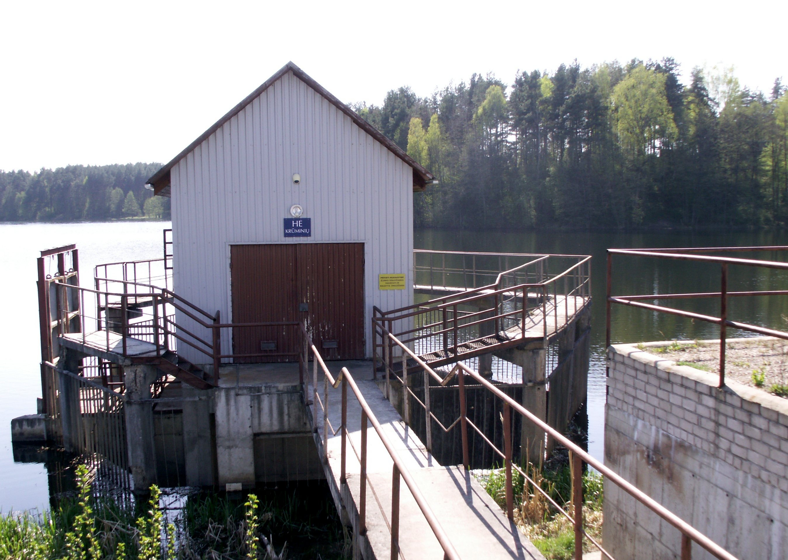 Krūminių hydroelectric power plant, Varėna district, Lithuania